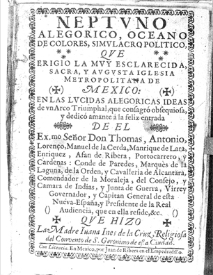 Neptuno alegórico, by Sor Juana Inés de la Cruz, 1680.